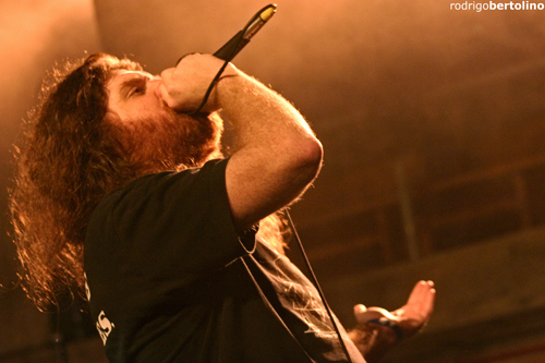 Mostra Dynamite: September 05, 2008 - São Paulo/SP [Do not publish without permission] * * In case you publish this photo please don't forget the credits | Ao publicar, por gentileza, dar os devidos créditos Foto por Rodrigo Bertolino: ____________________________________________________________ PORTFOLIO ¯¯¯¯¯¯¯¯¯¯¯¯¯¯¯¯¯¯¯¯¯¯¯¯¯¯¯¯¯¯¯¯¯¯¯¯¯¯¯¯¯¯¯¯¯¯¯¯¯¯¯¯¯¯¯¯¯¯¯¯ ¬ FLICKR: ¬ FOTOLOG: ¬ COMUNIDADE: ____________________________________________________________ LINKS ¯¯¯¯¯¯¯¯¯¯¯¯¯¯¯¯¯¯¯¯¯¯¯¯¯¯¯¯¯¯¯¯¯¯¯¯¯¯¯¯¯¯¯¯¯¯¯¯¯¯¯¯¯¯¯¯¯¯¯¯ ¬ MYSPACE: ¬ ORKUT: ____________________________________________________________ CONTATOS / E-MAIL ¯¯¯¯¯¯¯¯¯¯¯¯¯¯¯¯¯¯¯¯¯¯¯¯¯¯¯¯¯¯¯¯¯¯¯¯¯¯¯¯¯¯¯¯¯¯¯¯¯¯¯¯¯¯¯¯¯¯¯¯ ¬ ADD MSN: ¬ CONTATO